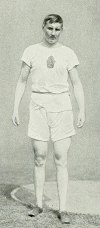 Armas Taipale at the 1912 Summer Olympics